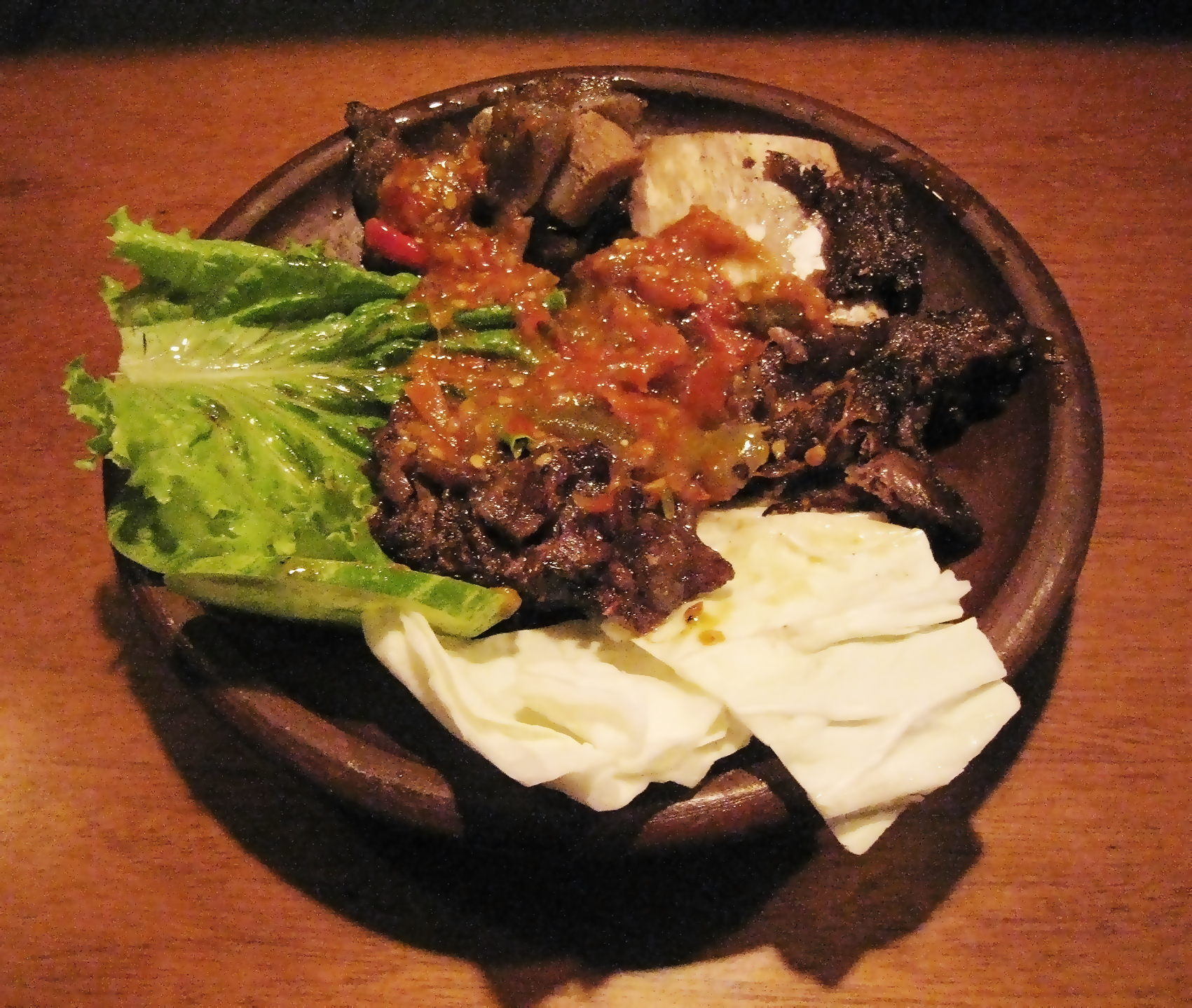 Iga Penyet, an Indonesian beef rib dish in spicy sambal chili sauce served with vegetables. Penyet is Javanese word for squeezing, which refer to the serving method squeezing the ribs with mortar and pestle on sambal and served it in earthenware plate. Warung Ngalam streetside foodstall, Sabang area, Central Jakarta, Indonesia.